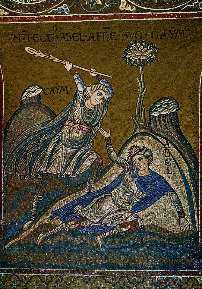 Cain and Abel. Byzantine mosaic i =n Monreale